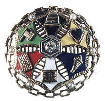 A depiction of the Order of the Golden Chain logo in metal.